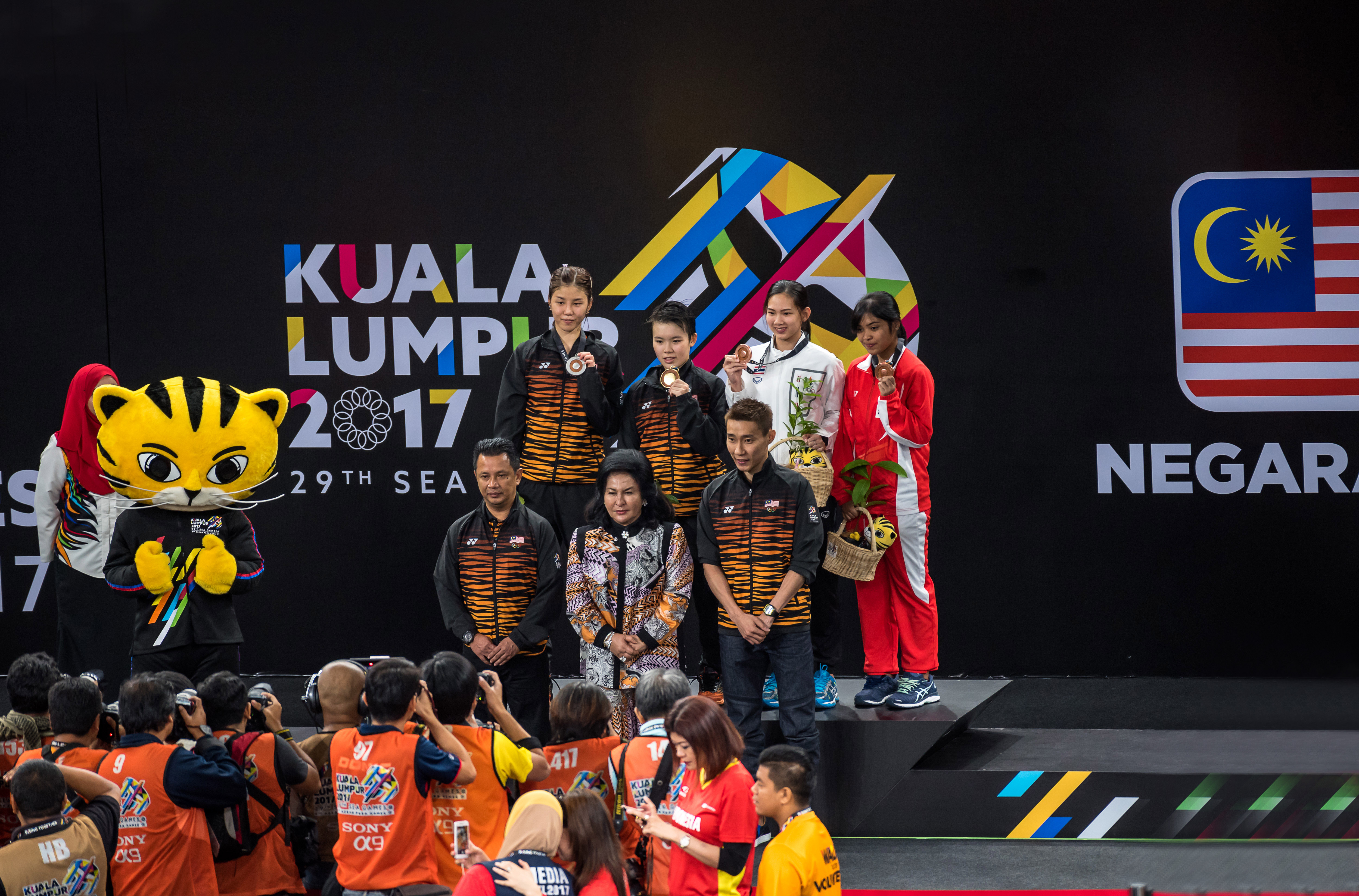 Sea Games Badmintion Final